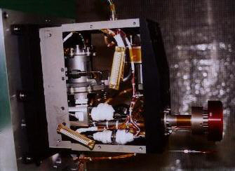 Aerosol Collector and Pyrolyser-Instrument from Huygens